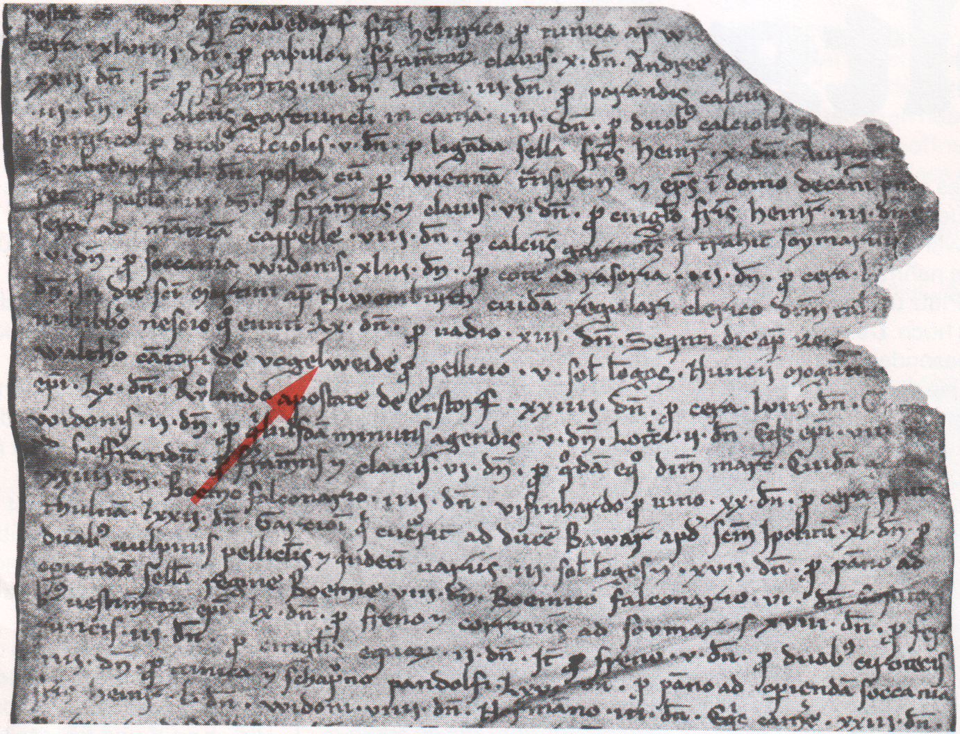 Only documentary mention of Walther von der Vogelweide in an itinerary account of the bishop of Passau, Wolfger von Erla, 1203-11-12. Text: "Walthero cantori de vogelweide pro pellicio v solidos longos" = To the singer Walther von der Vogelweide 5 solidi for a fur coat.